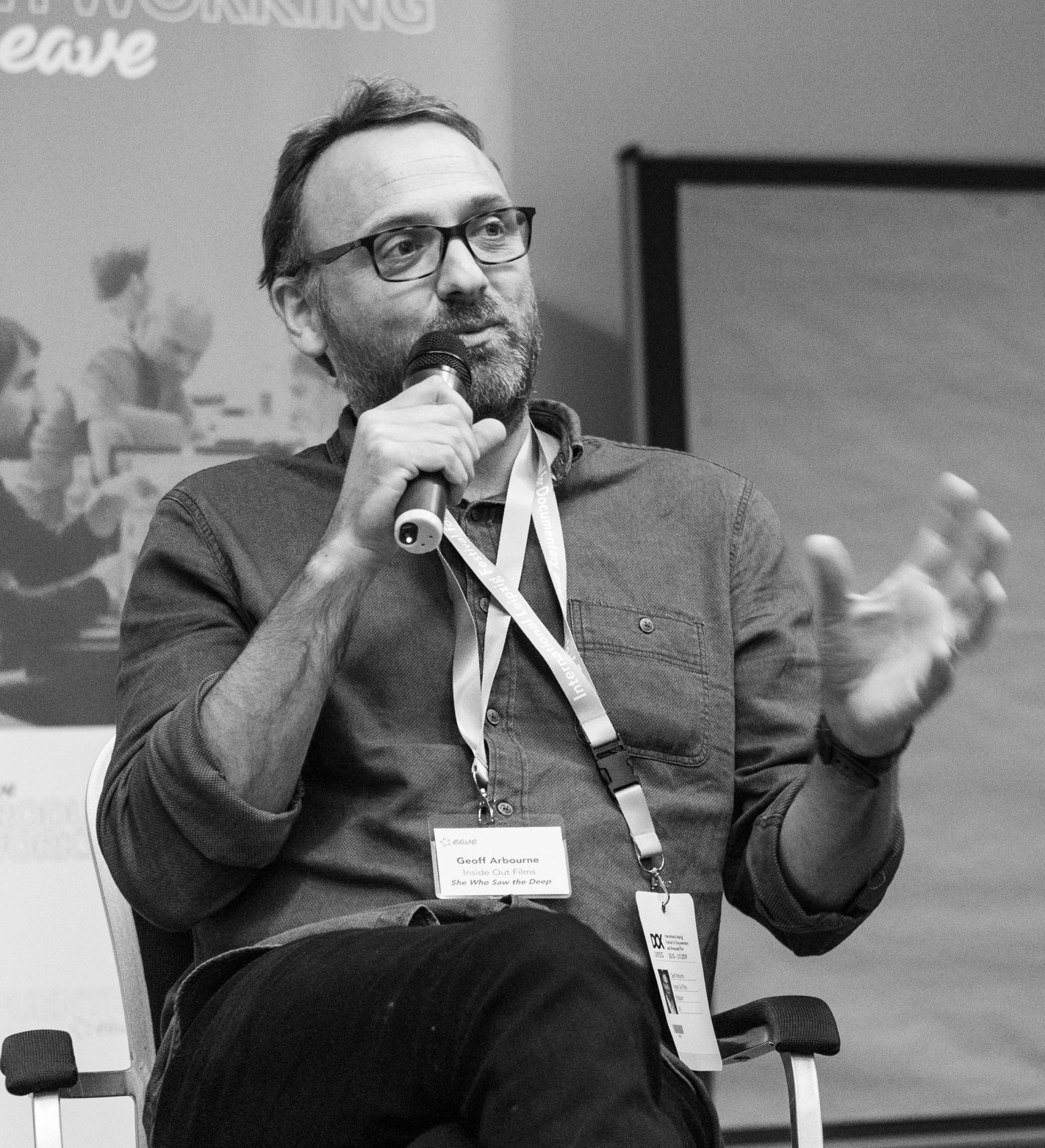 Geoff Arbourne attending the European Audiovisual Entrepreneurs (EAVE) in 2019